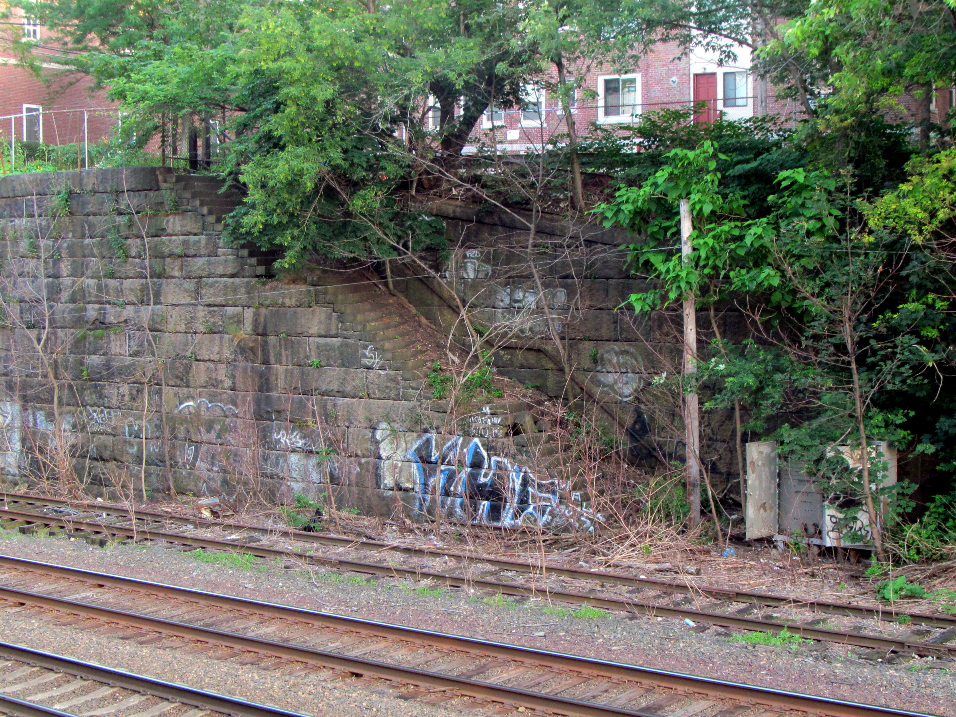 Abandoned staircase to the inbound platform at the former Somerville Junction station in July 2015